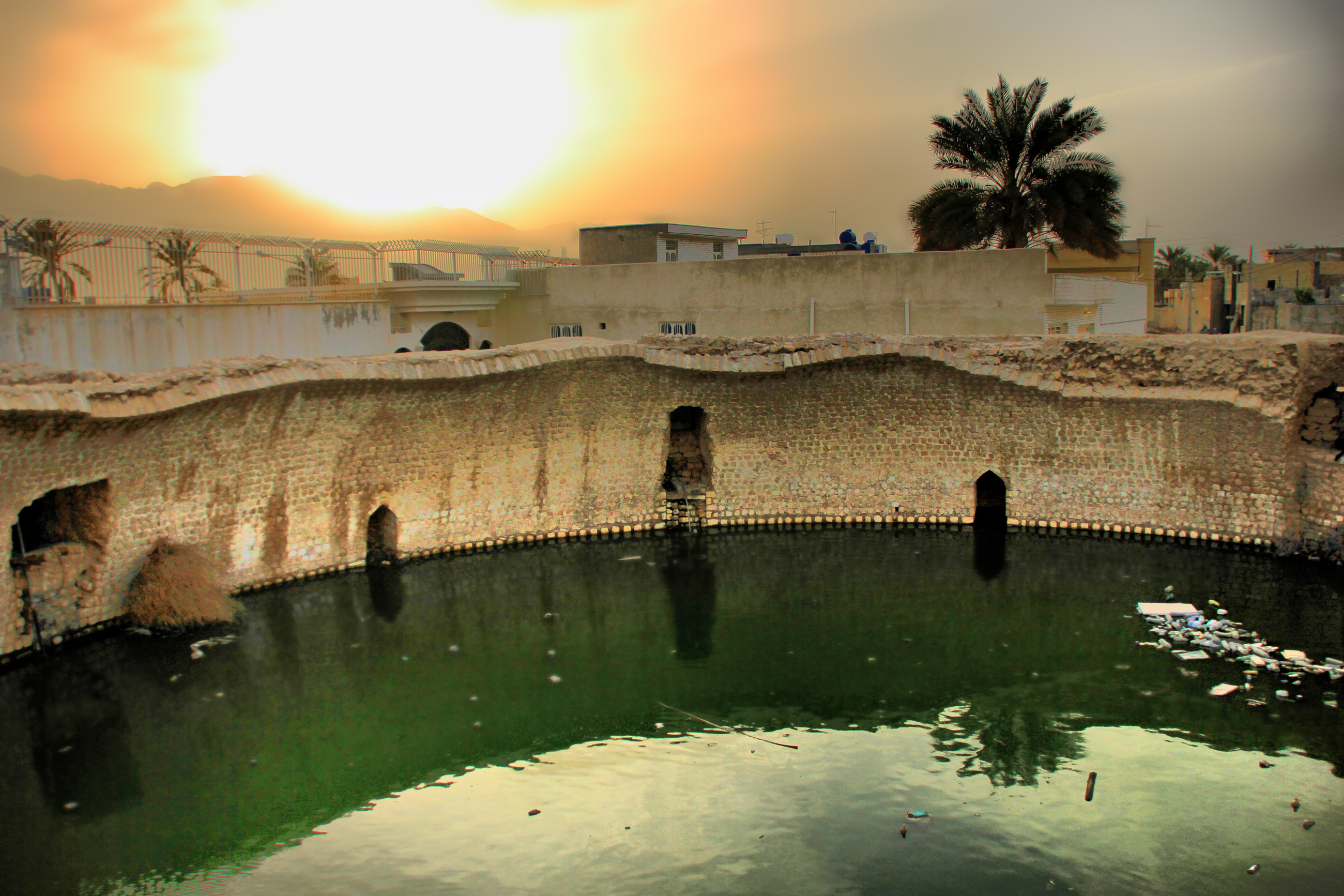 water placing in Gerash,South of Iran